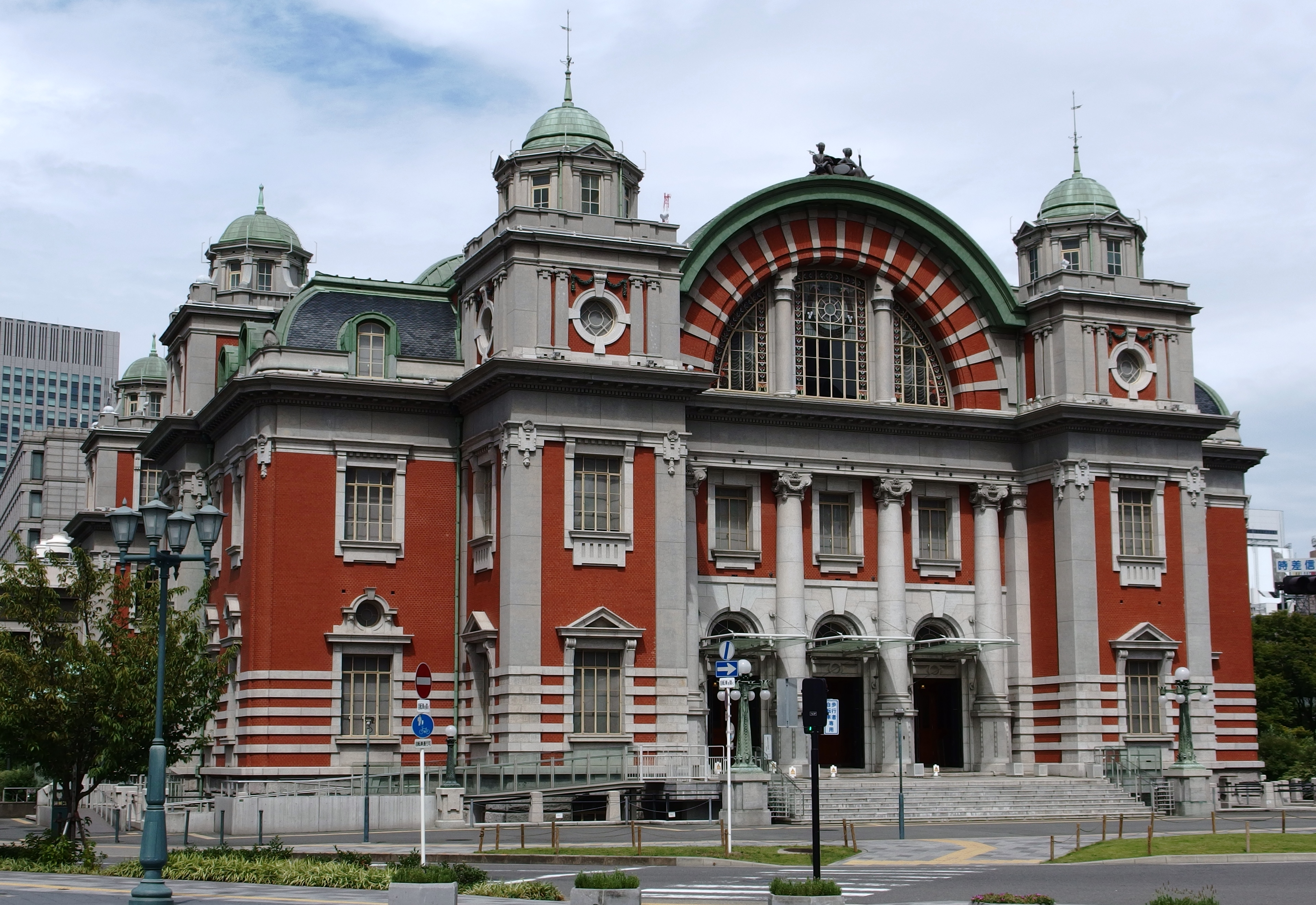 Osaka Central Public Hall, Osaka, Osaka Prefecture, Japan